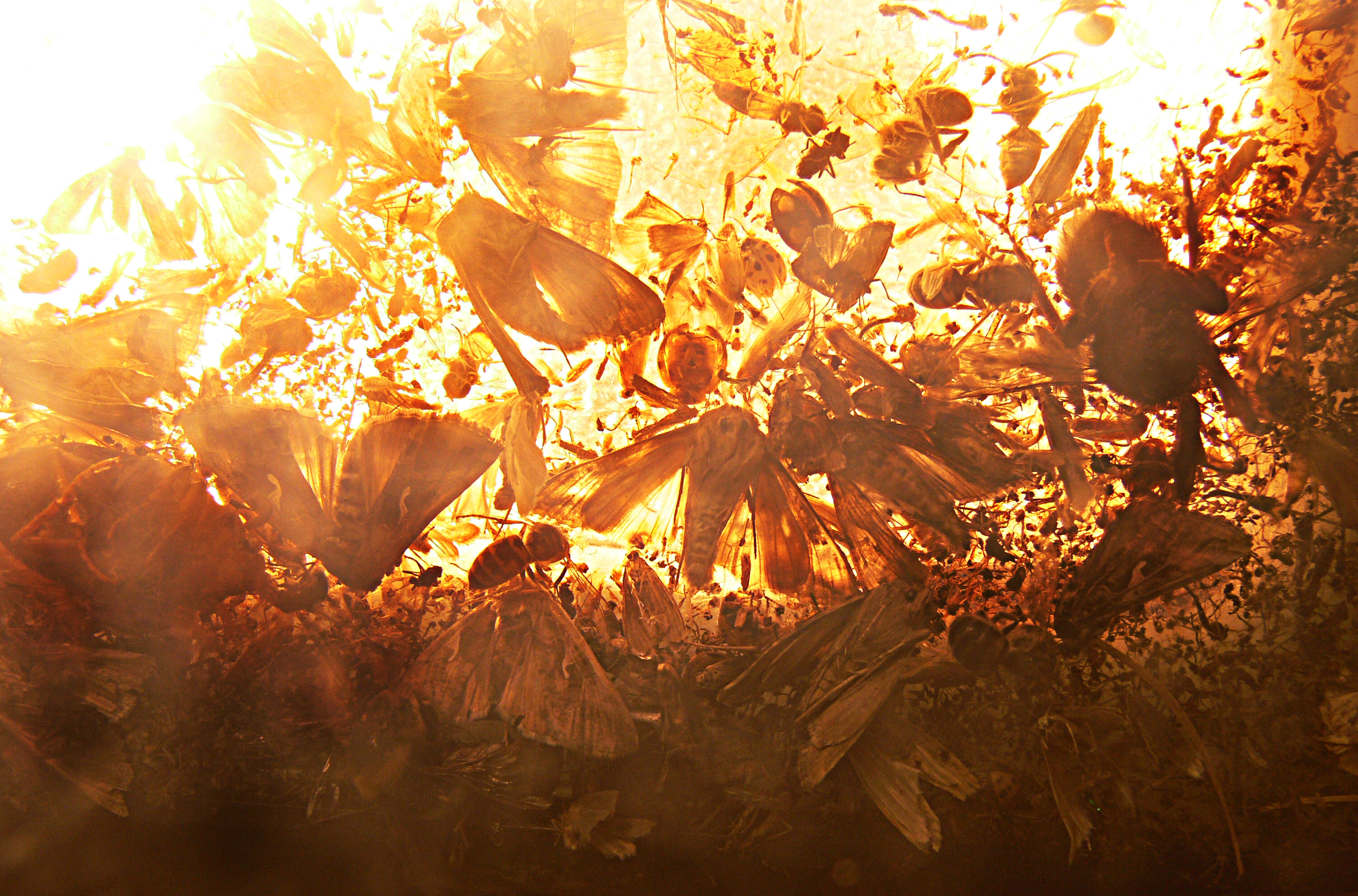 Dead insects trapped after being attracted by light in a lighting box hidden in the soil near a public monuments. This is an example of Ecological trap and of light pollution